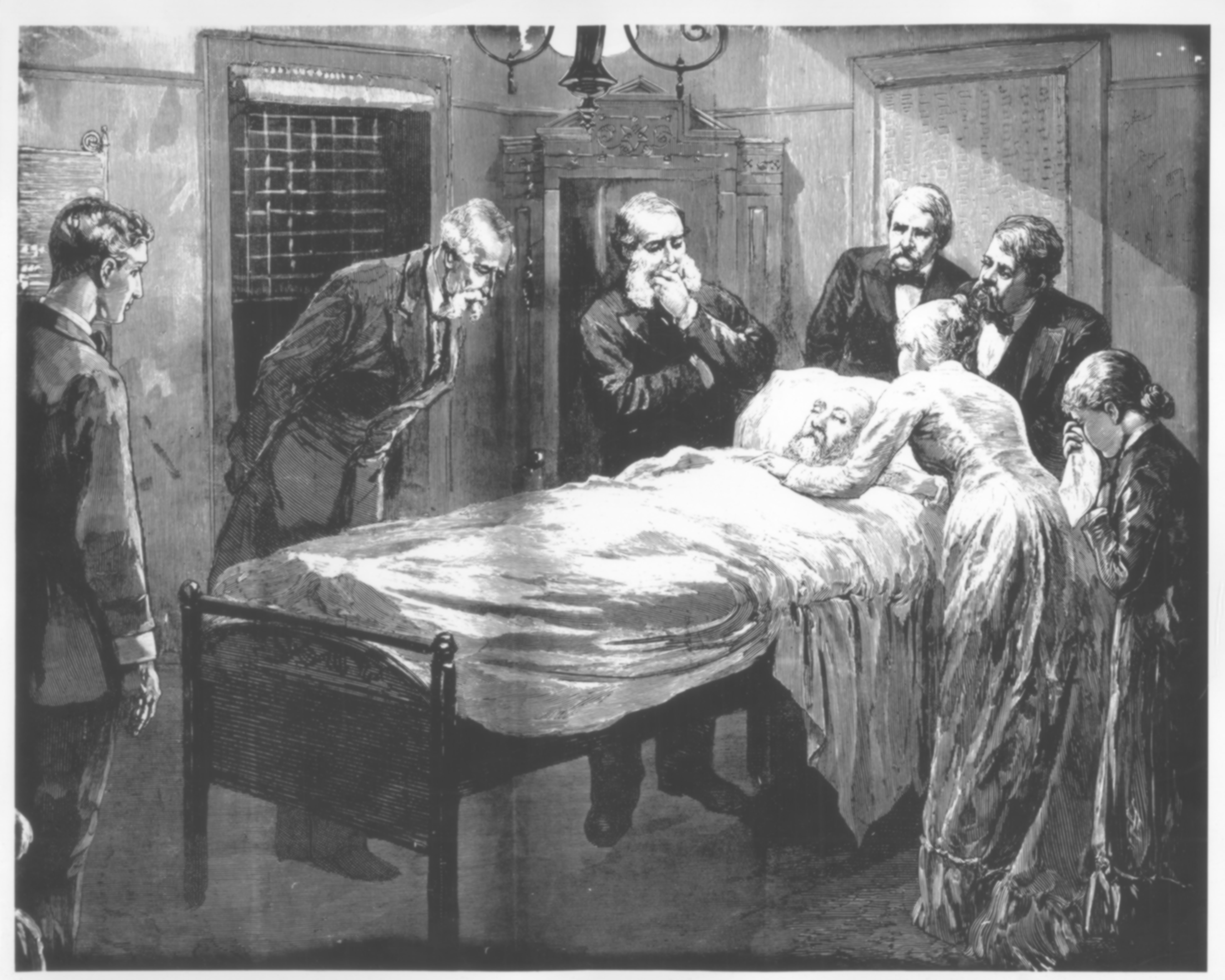 Ncp 001861 death bed of president garfield. Garfield, james from harper's weekly.